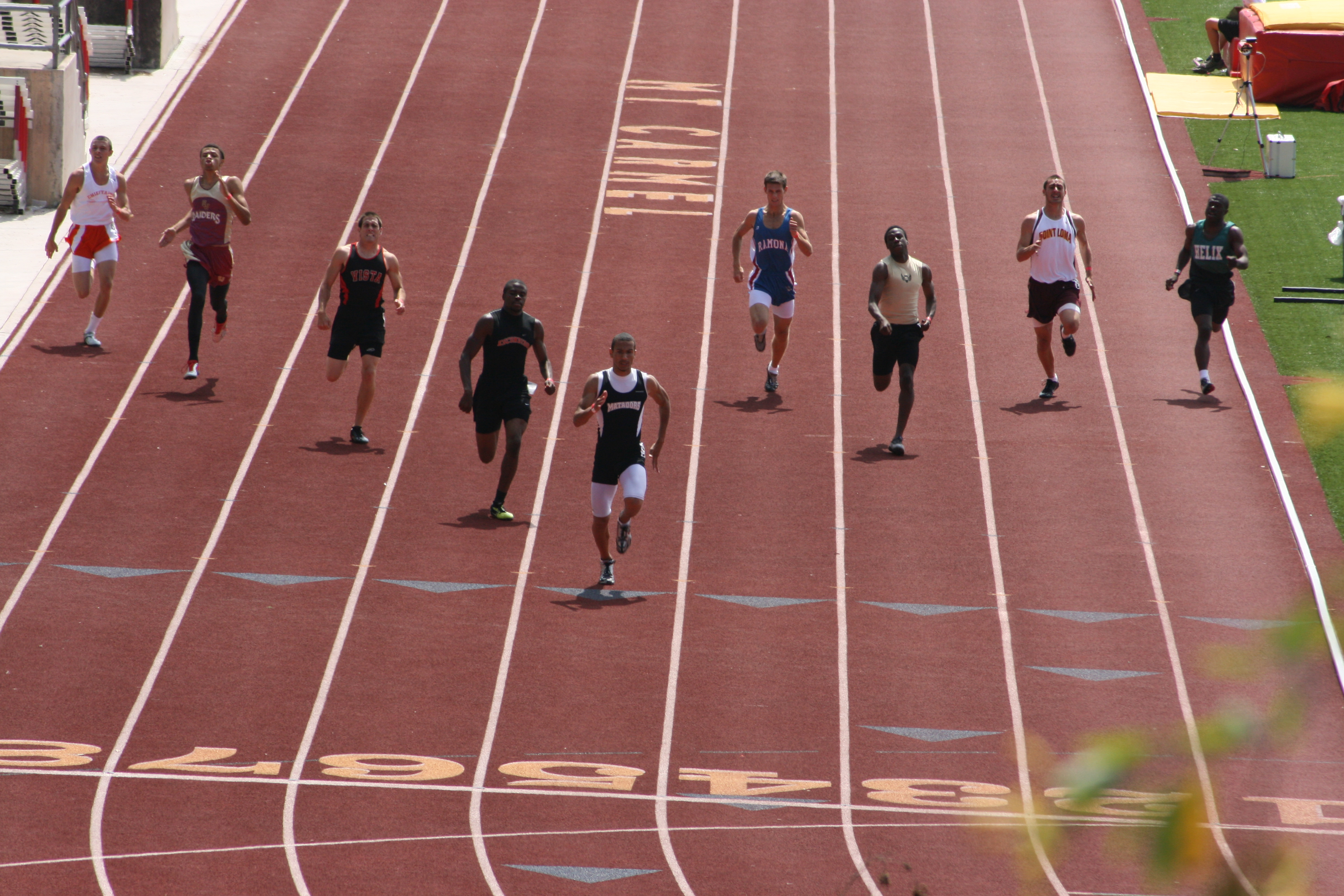 Nico Reaves 400m 48.01 Track and field CIF San Diego Championship 2007 boys 400m-A finals